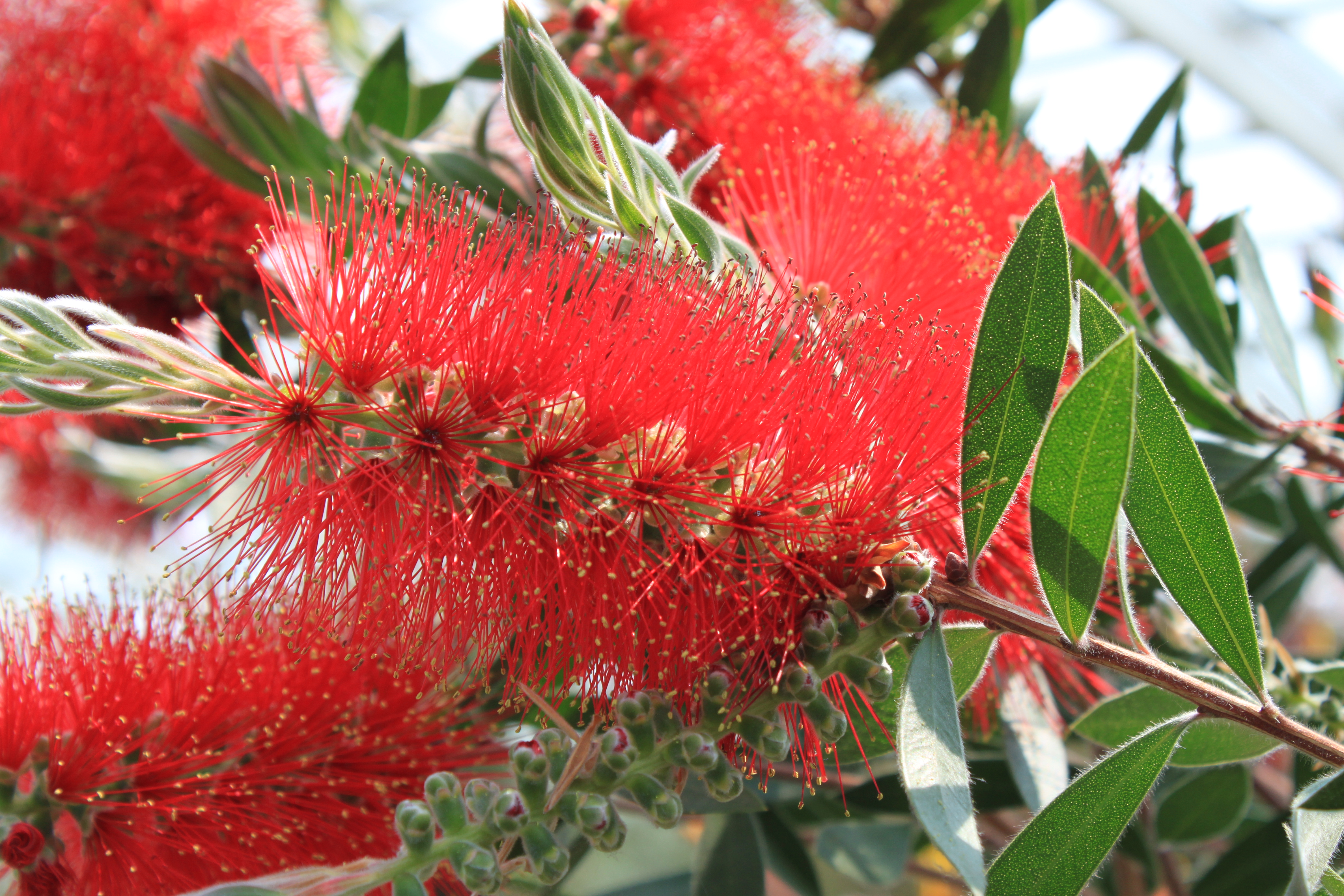 Callistemon macropunctatus var macropunctatus flowers In the glass house at the National Botanic Garden of Wales